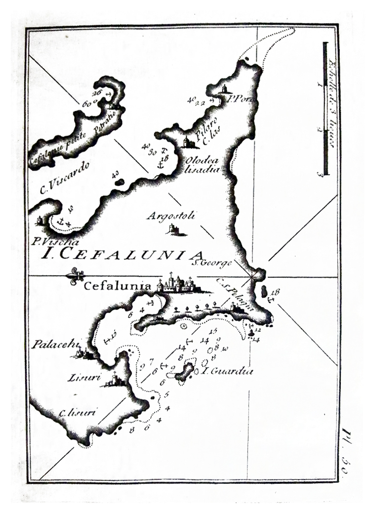 Map of the Island of Kefalonia, made by Roux in 1764